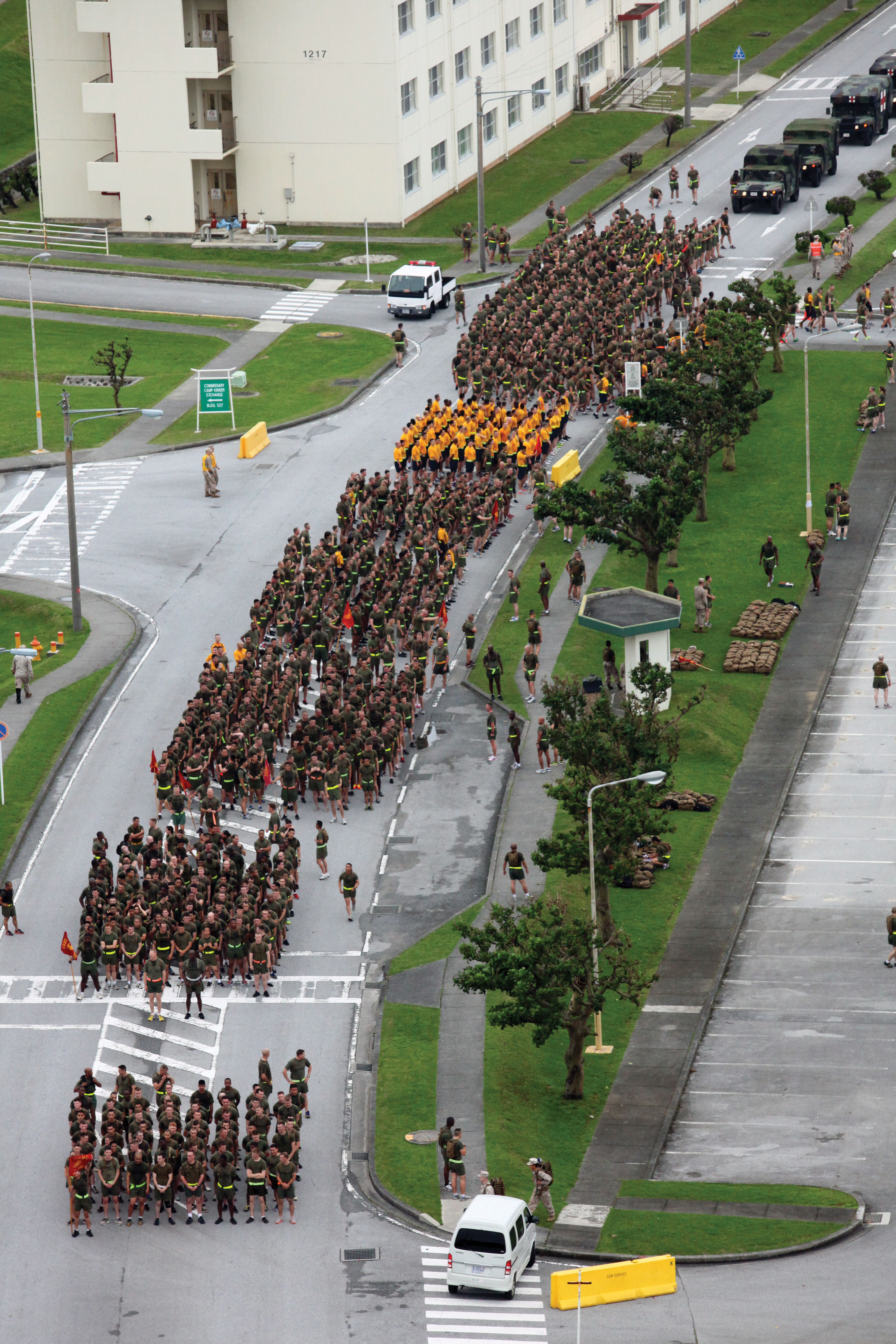 Marines and sailors form for a motivational run in celebration of the 55th anniversary of the 3rd Marine Logistics Group, III Marine Expeditionary Force, May 24 at Camp Kinser.